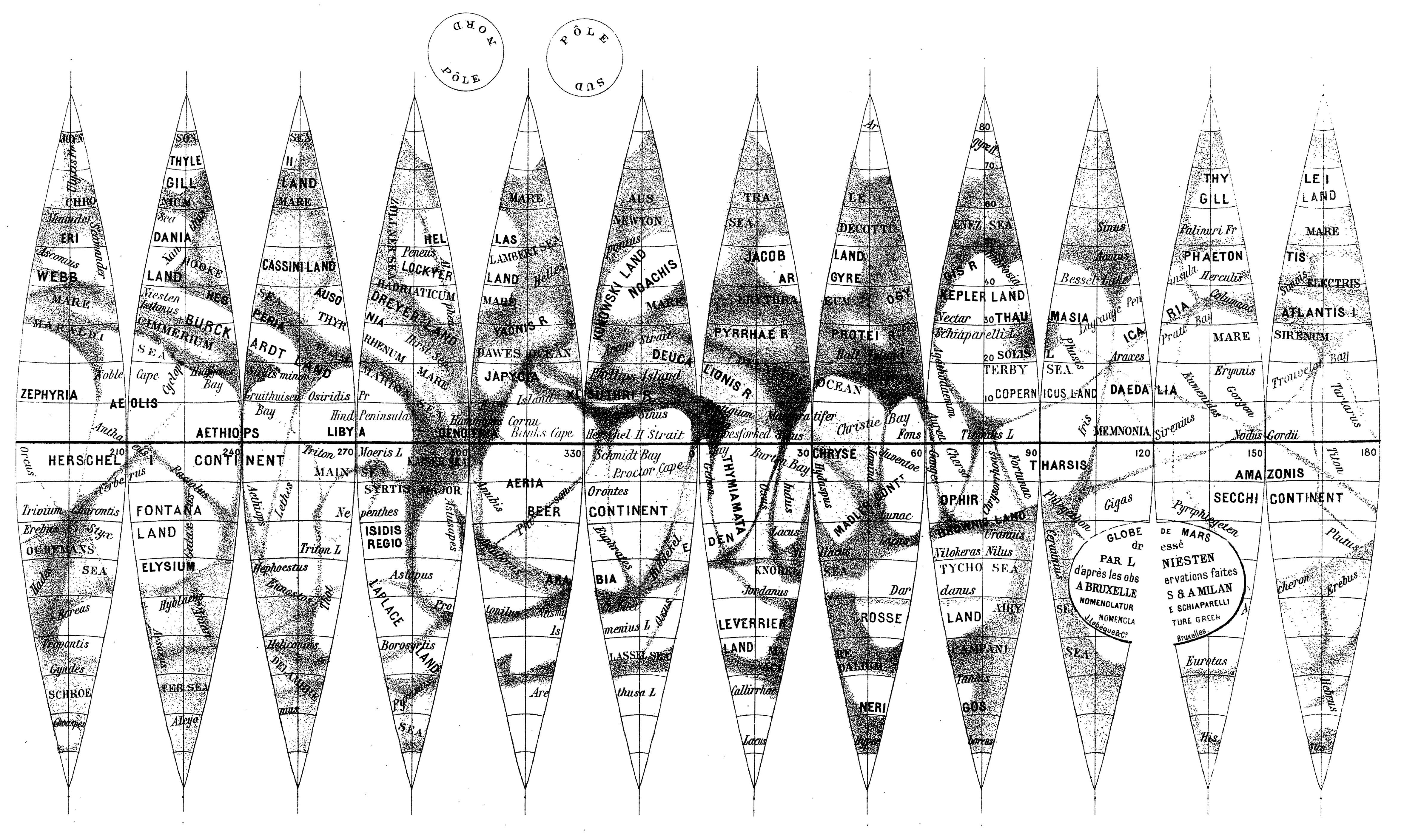 Atlas of Mars by Belgian Astronomer Louis Niesten. The map is meant to be folded around a sphere thus constructing a small globe of Mars. Dimensions are 22cm x 10cm. The Cartouche reads: GLOBE DE MARS / dressé / PAR L. NIESTEN / d’après les observations faites / À BRUXELLES & À MILAN / NOMENCLATURE SCHIAPARELLI / NOMENCLATURE GREEN / J. Lebèque & C.° Bruxelles. Niesten made the Atlas according to observations done in Brussels and Milan, following Schiaparelli's and Green's nomenclature. Published by J. Lebèque & Co, Brusells. South is up.